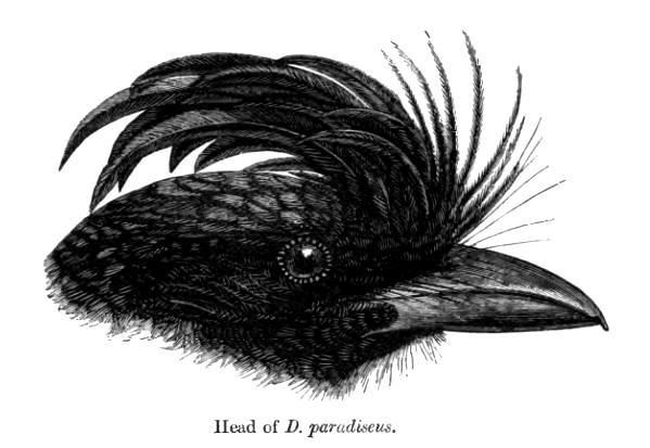 Head of Dicrurus paradiseus